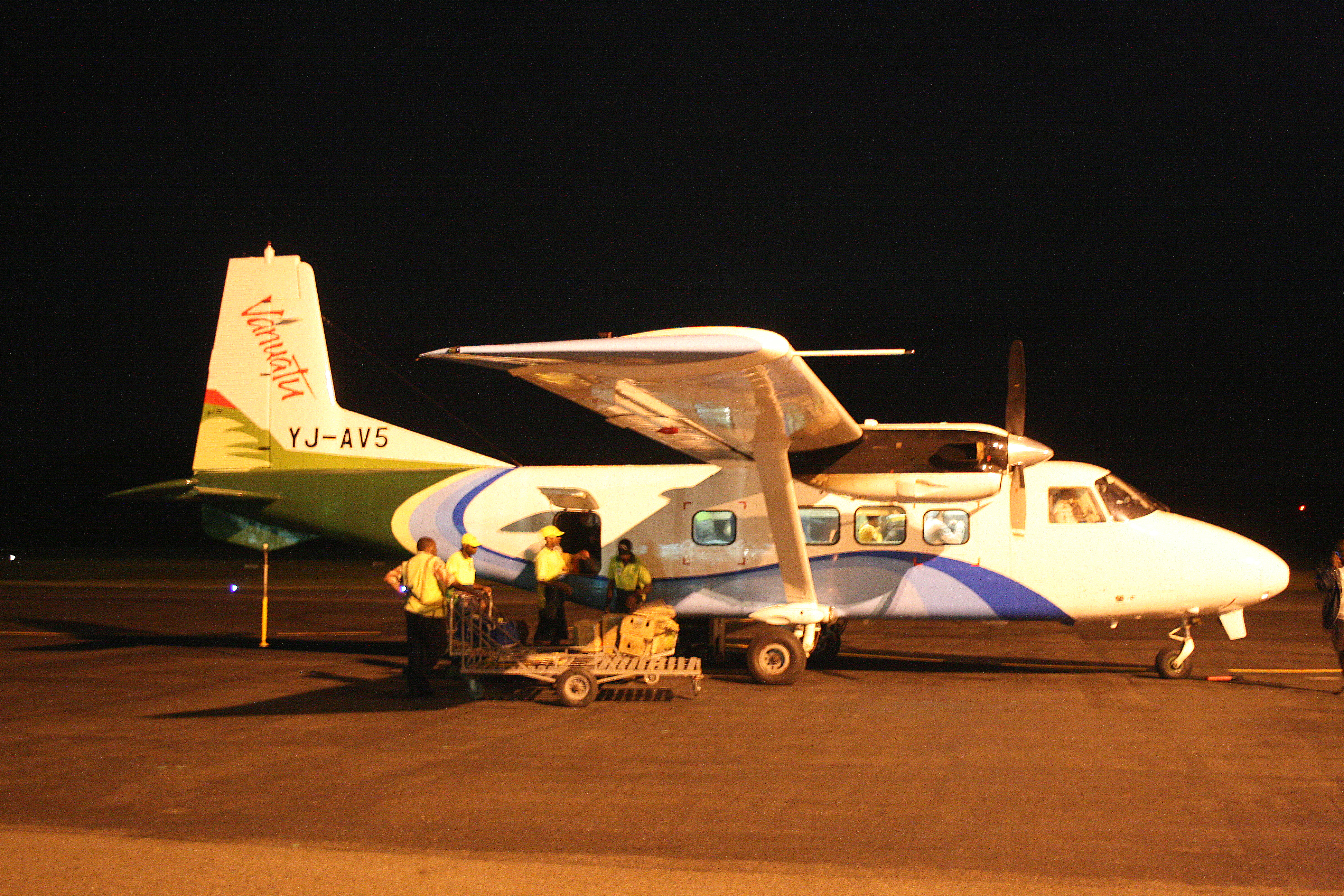 An Air Vanuatu Harbin Y-12 at Port Vila's Bauerfield International Airport.